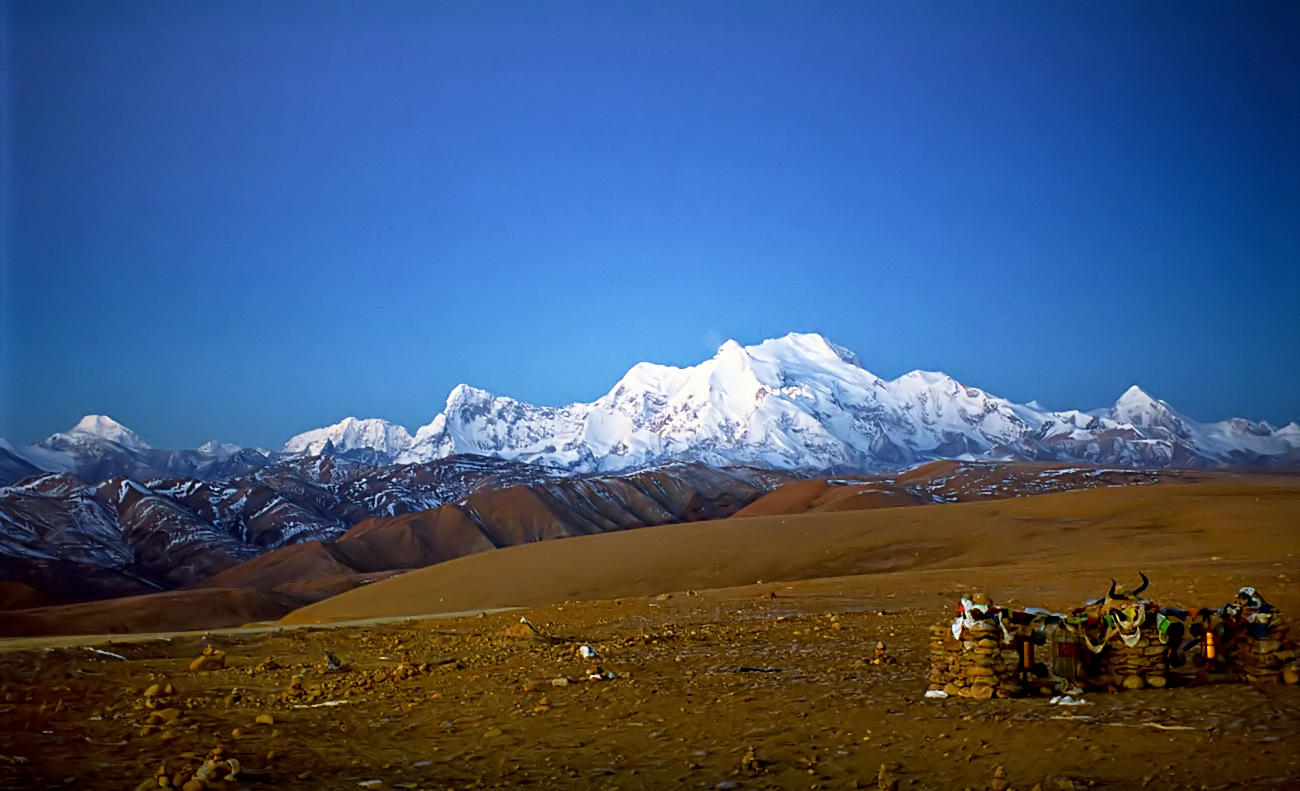 Early in the morning at Tong La